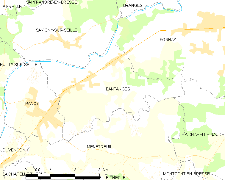 Map of French municipality